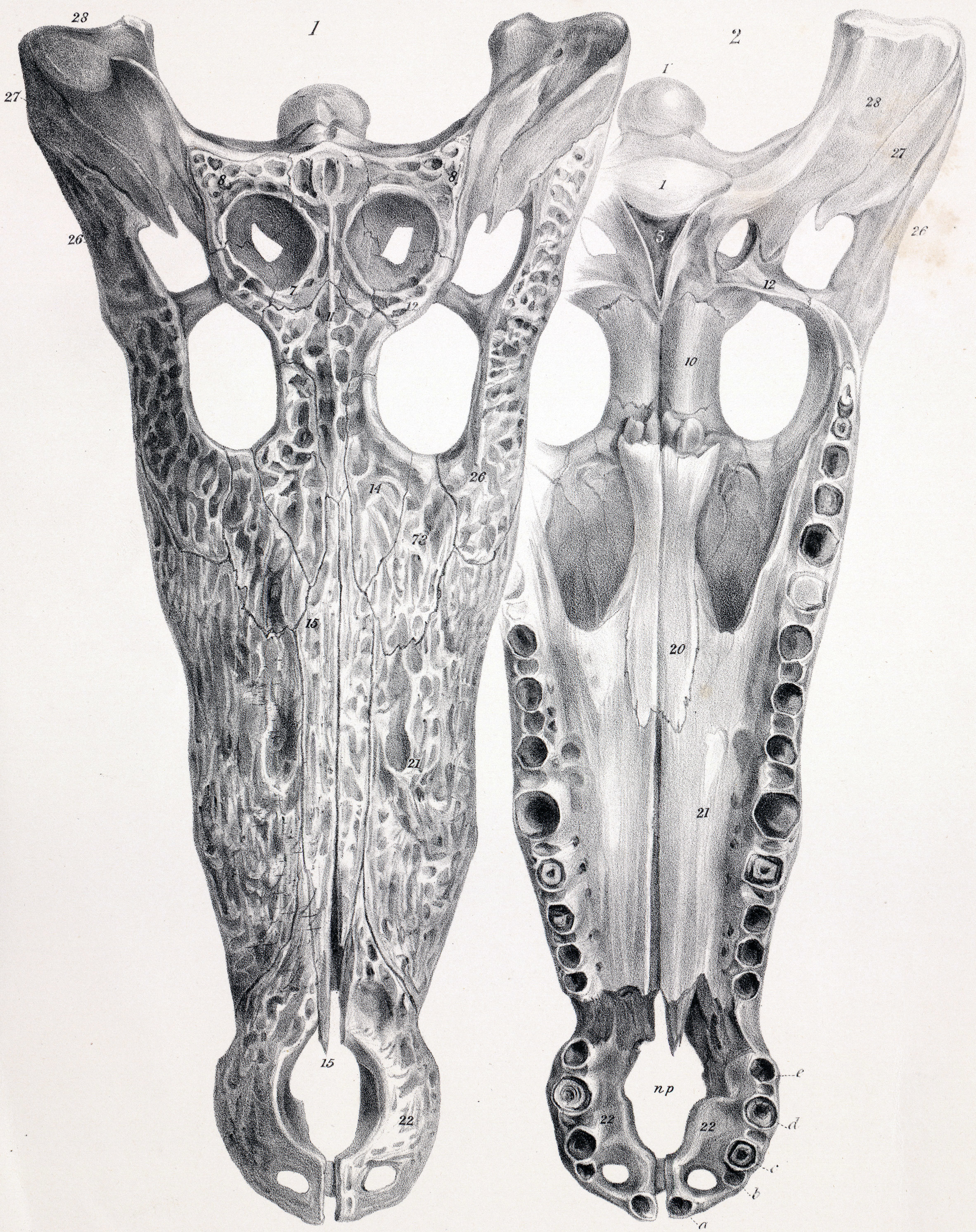 Skull of a mummified specimen of Crocodylus suchus. Crocodilus Suchus, half the nat. size. Fig. 1. Upper view of the skull. Fig. 2. Under view of ditto. Both ends of the bony palate have suffered fracture and loss, apparently in the process of mummifying the body of the Crocodile.